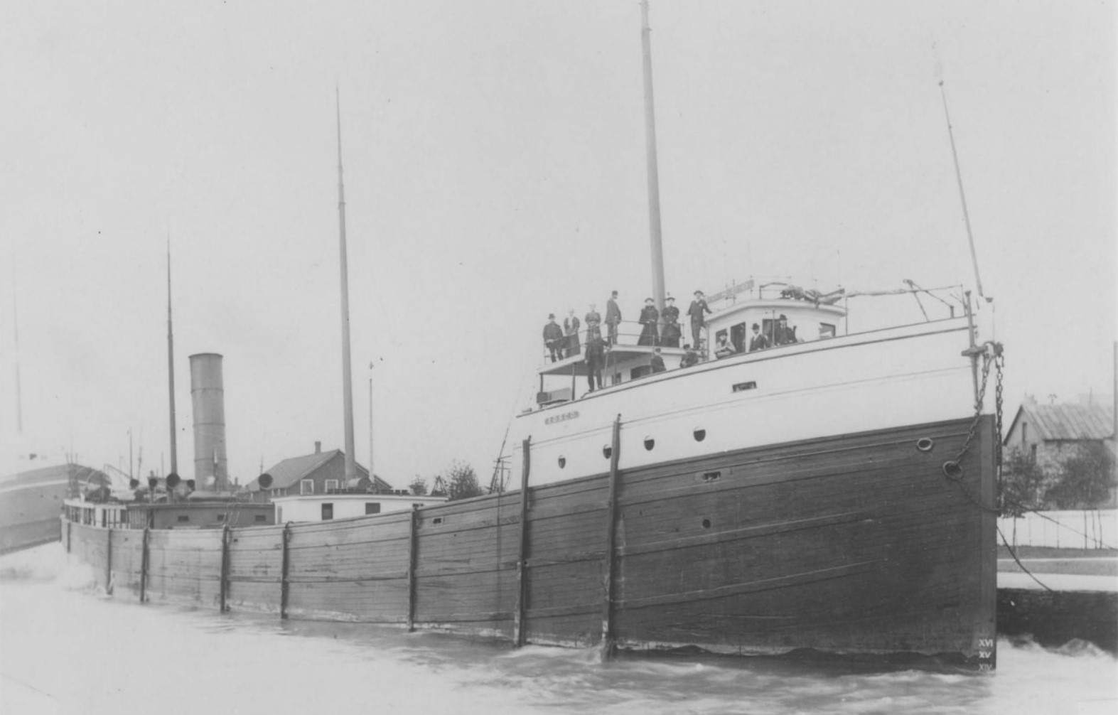 The wooden steamer Iosco in port